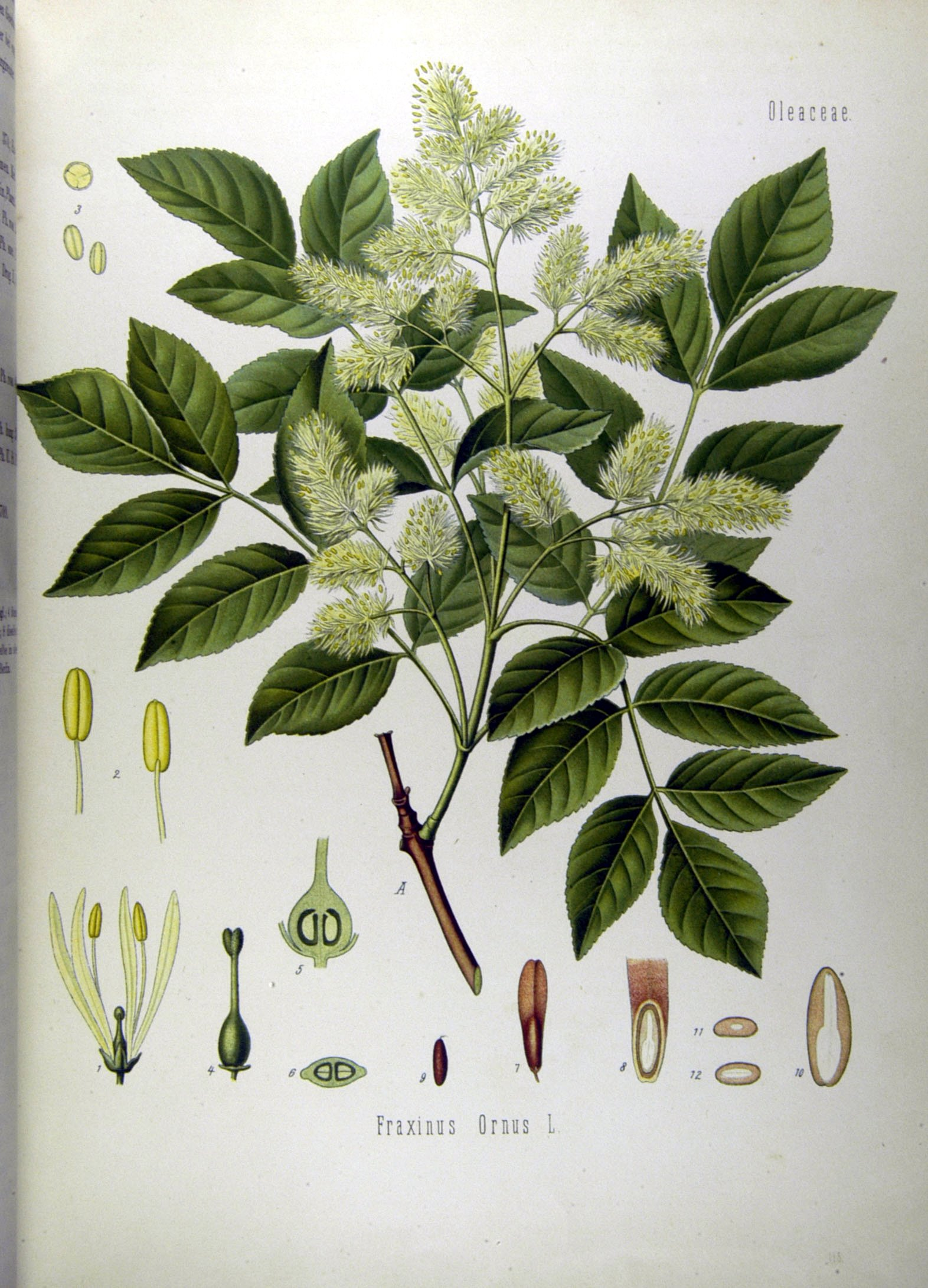 Illustration of Fraxinus Ornus